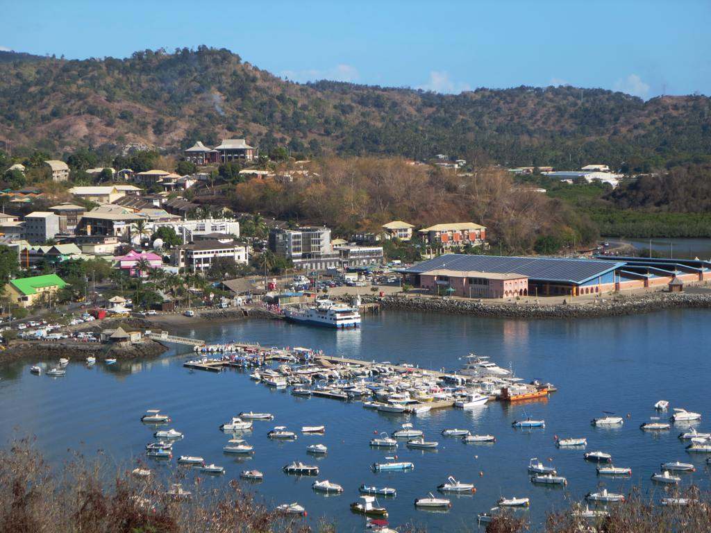 Mamoudzou on Grande-Terre island is the largest town and capital (préfecture) of Mayotte. The large building on the right is the public market. Part of the Comoros Group in the Indian Ocean, Mayotte has been a French possession since 1841 and is a French overseas department since 2011. Mamoudzou is also the